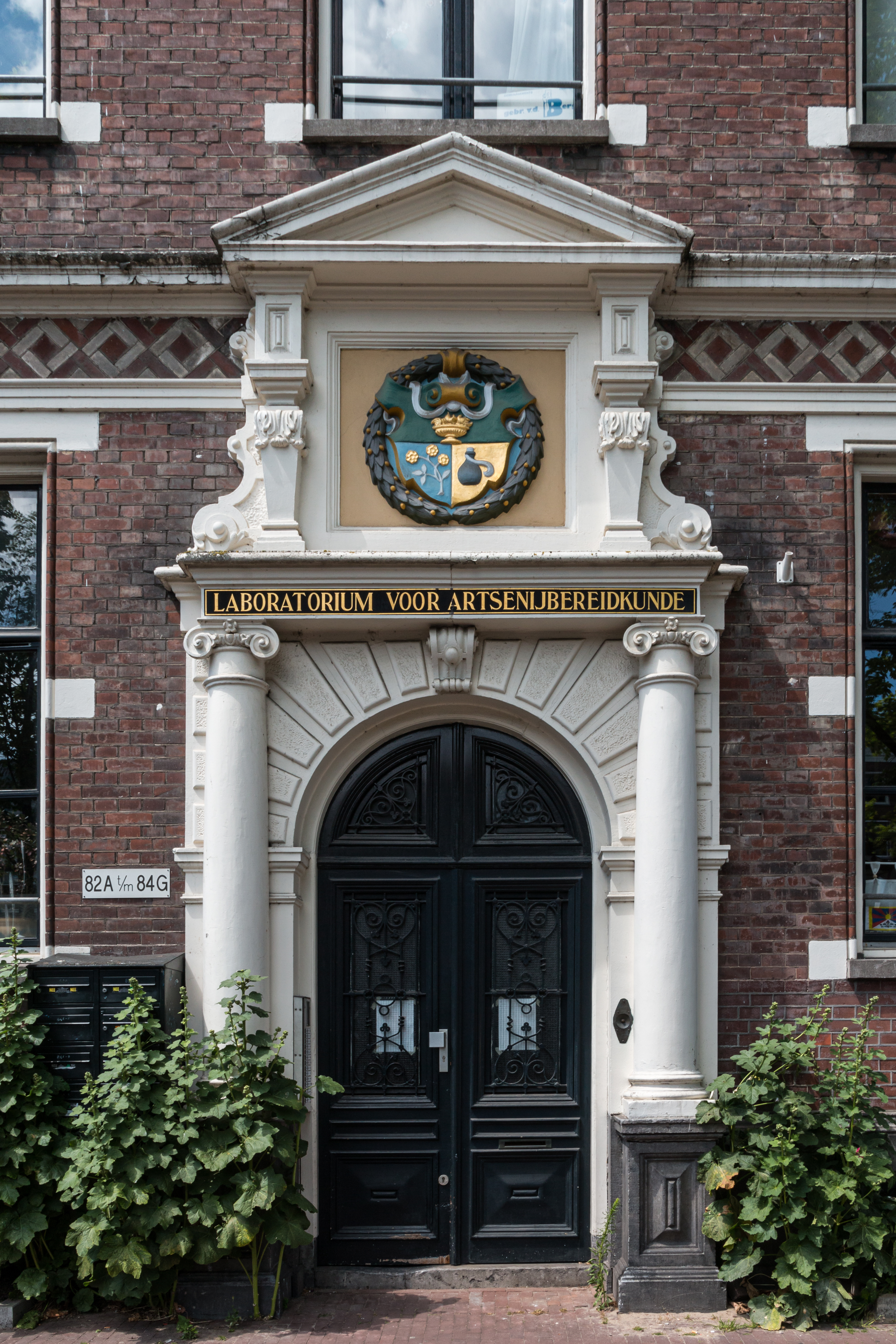 Kloveniersburgwal 82A-G (Laboratorium voor Artsenijbereidkunde) in Amsterdam, Netherlands